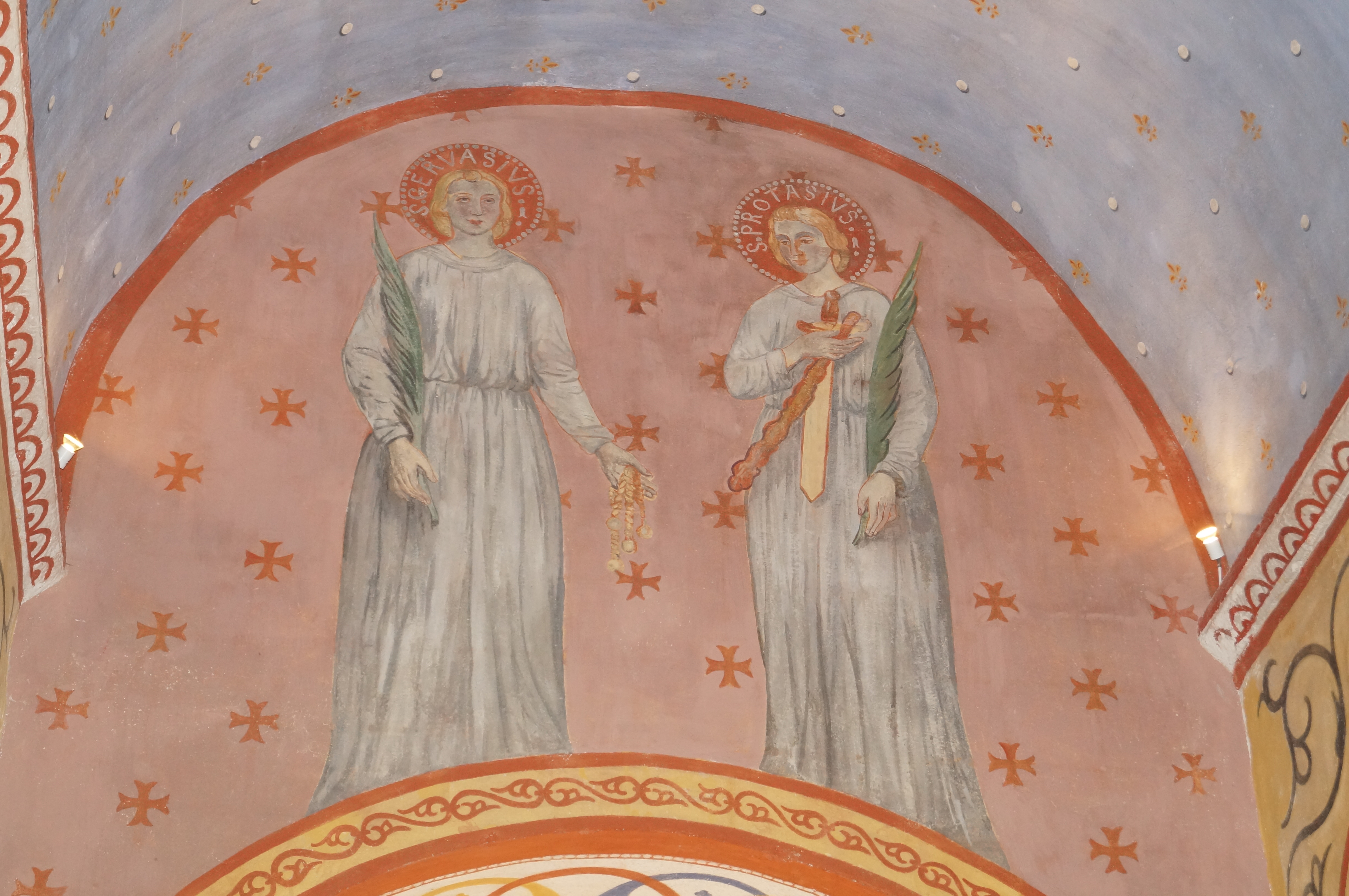 Honoré Hivernais, Saint Gervais et saint Protais, 1866, chevet, église de Civaux.